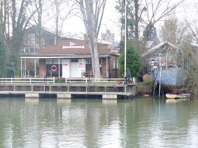 Richmond Yacht Club Despite its name, this is based on Eel Pie Island, Twickenham.